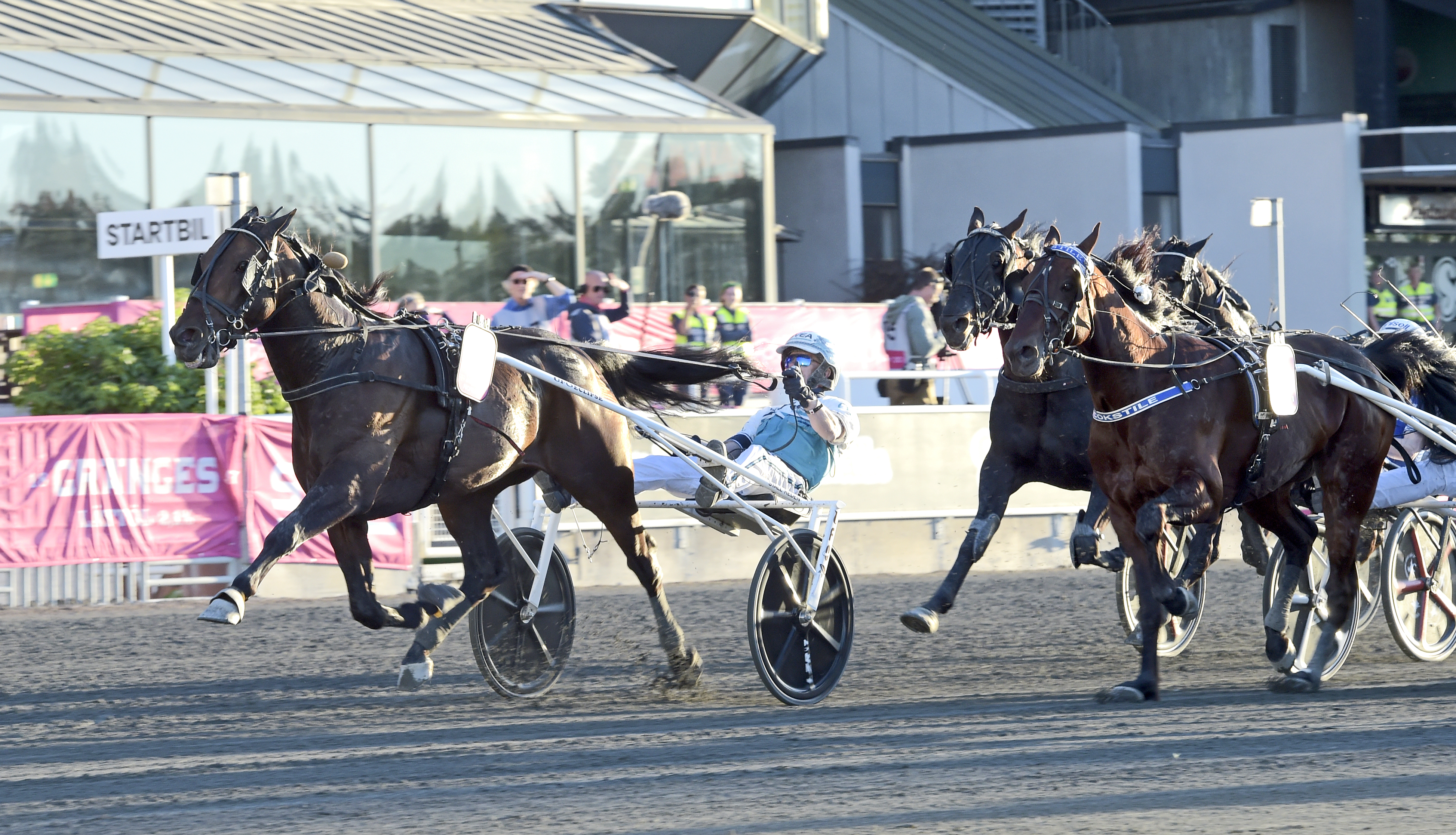 Foto: Lars Jakobsson